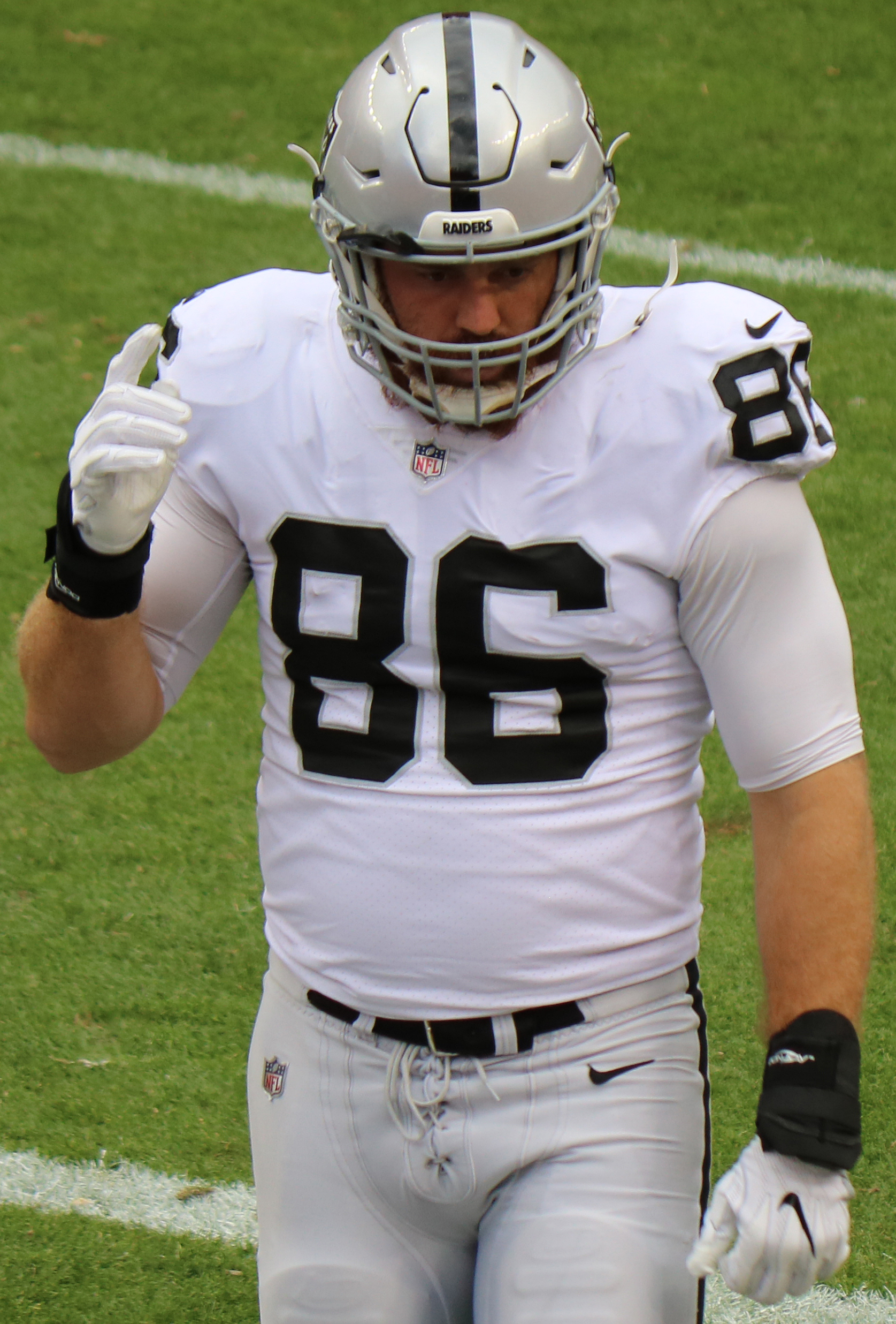 Lee Smith, a player on the National Football League.